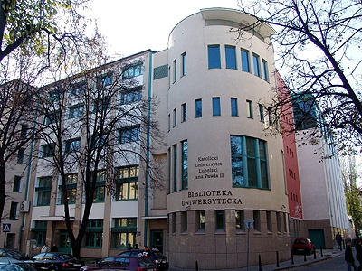 Biblioteka Uniwersytecka Katolickiego Uniwersytetu Lubelskiego Jana Pawła II